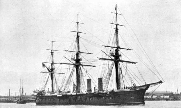 Photograph of British ironclad HMS Lord Warden.